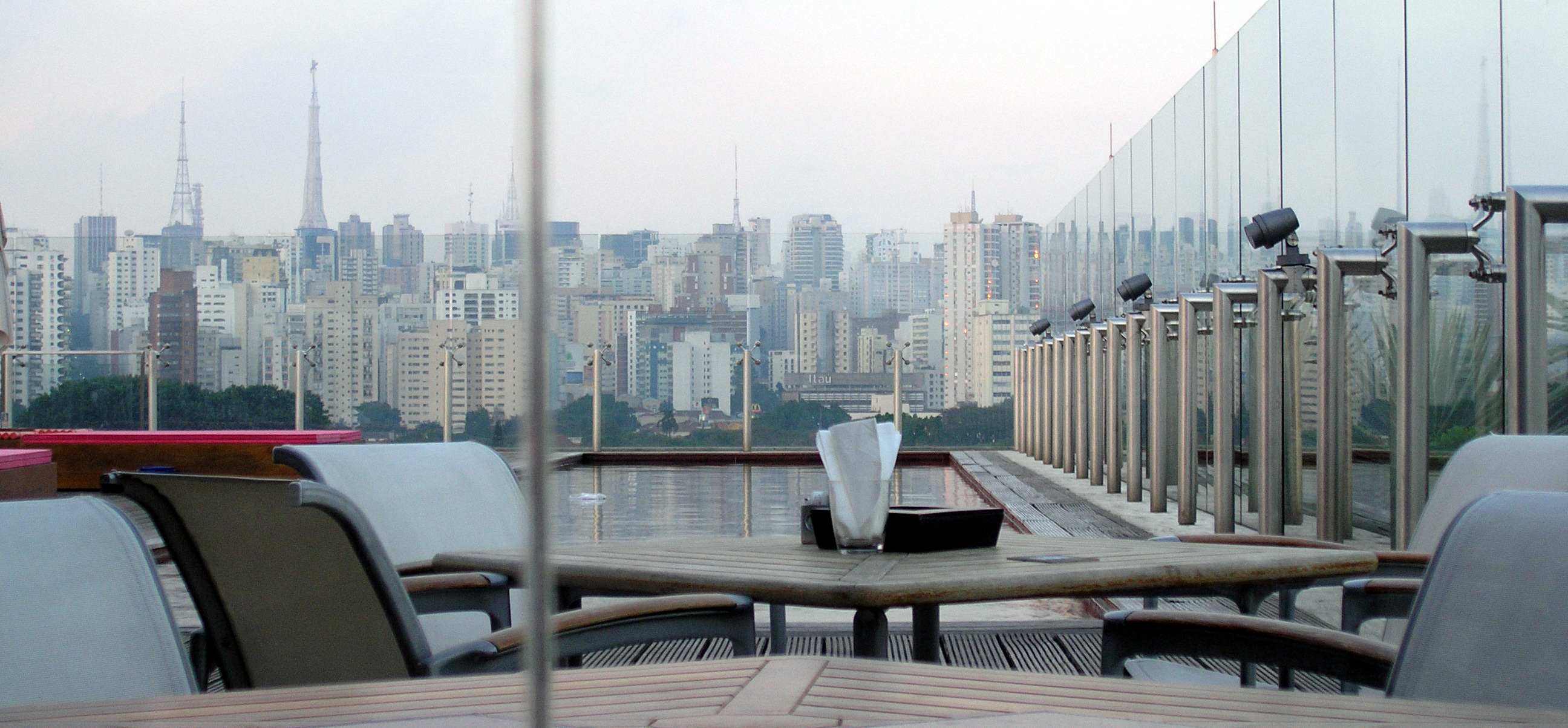 the roof terrace of Rui Othake's postmodernist; Hotel Unique, São Paulo, SP, Brasil.